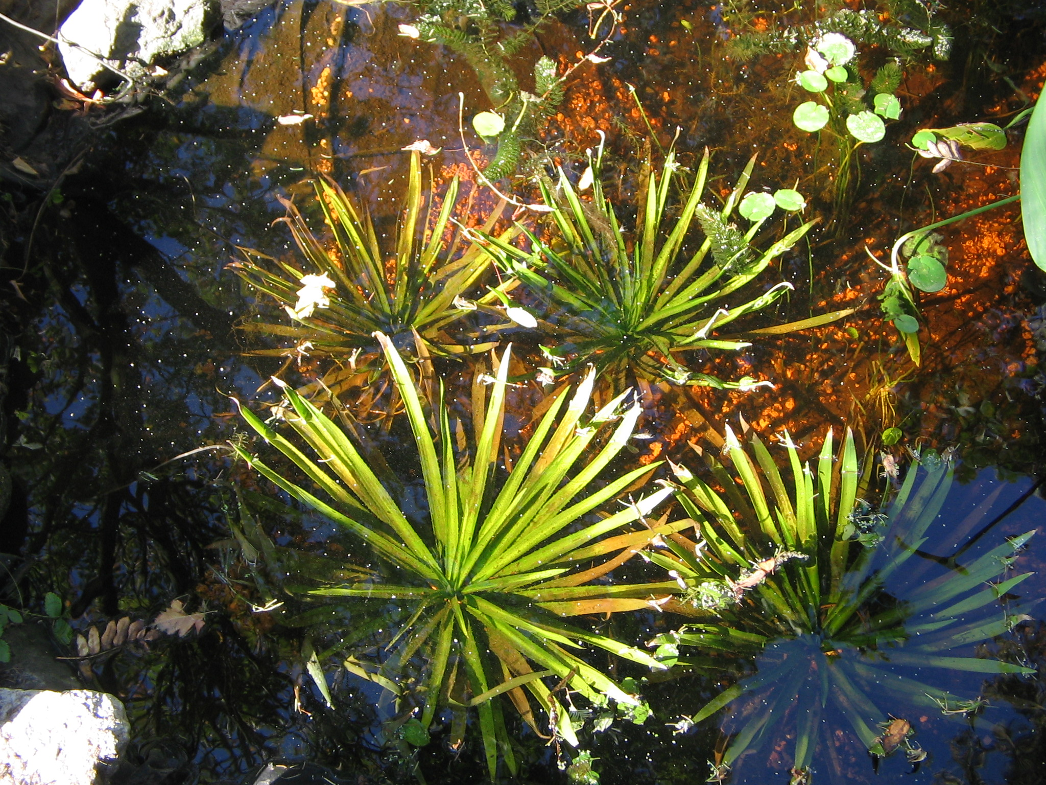 Statiotes aloides